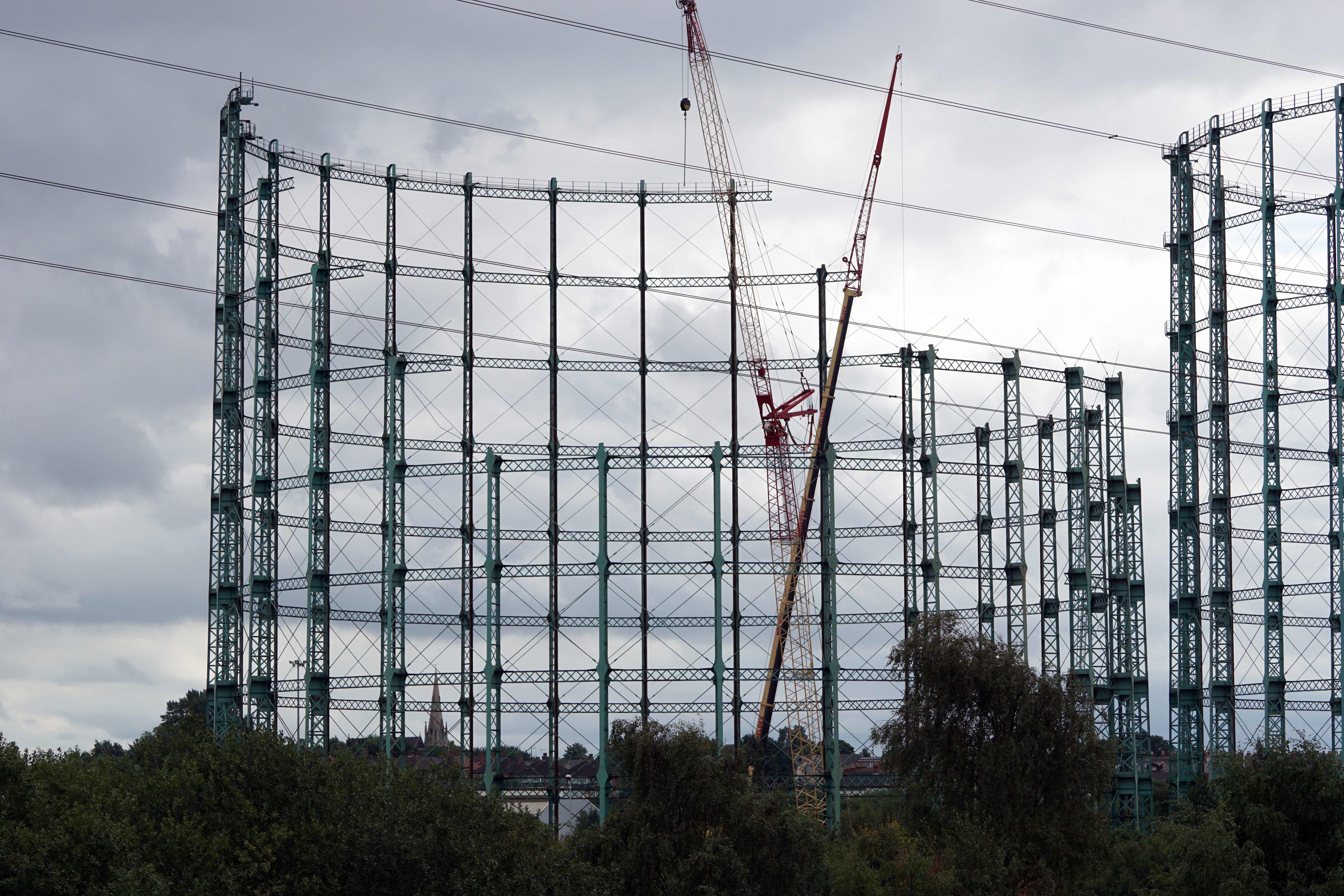 Demolition of gasometer frames at Nechells, Birmingham, England in August 2015.